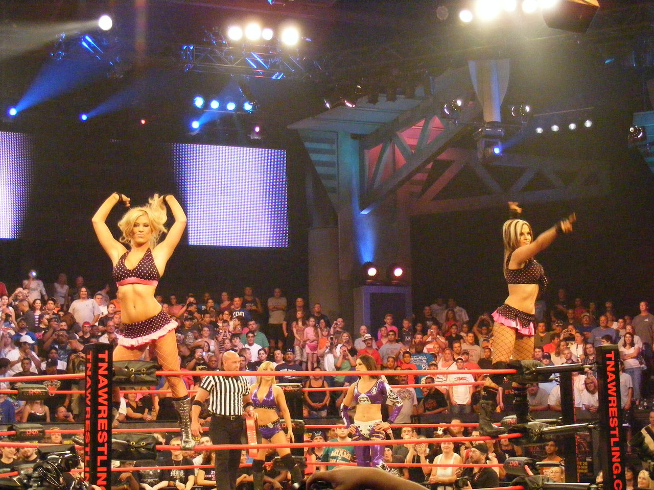 Madison Rayne and Velvet Sky (The Beautiful People) at No Surrender